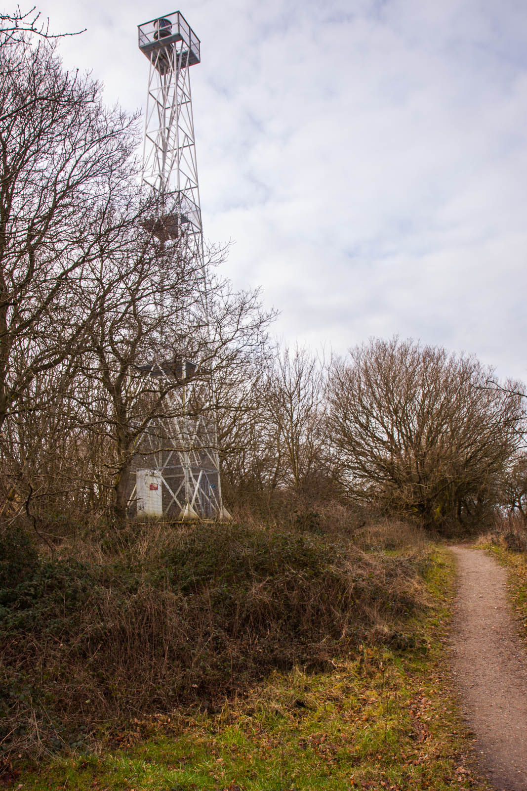 Trelde Næs Fyr, situated close to the danish town, Fredericia